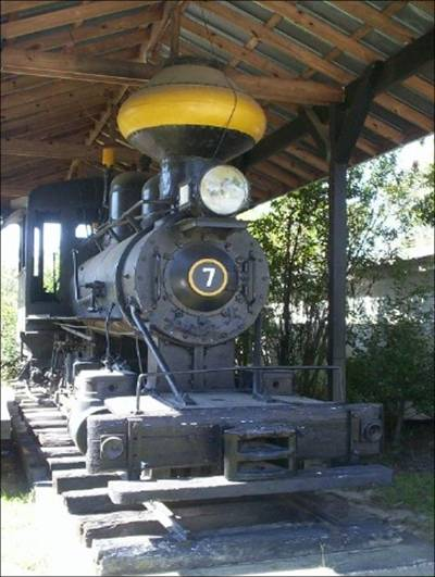 Argent Lumber Company Engine 7, displayed in Hardeeville, S.C.